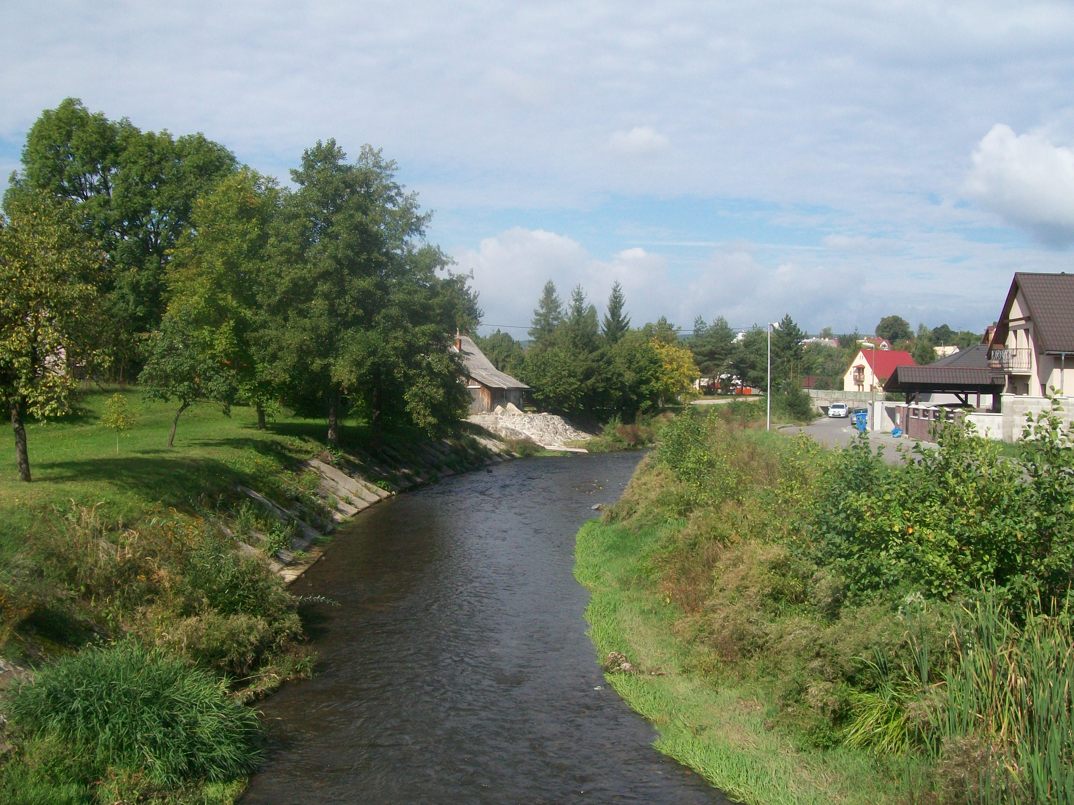 Handlovka river flowing through the village Chrenovec-Brusno